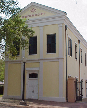 Perseverance Hall No. 4, 901 St. Claude Ave., New Orleans, Orleans Parish, Louisiana. 29°57′48″N 90°4′5″W / 29.96333°N 90.06806°W. Built between 1819 and 1820, it is the oldest Masonic temple in Lousiana.[1] Listed on the National Register of Historic Places on October 2, 1973. Now the centerpiece of New Orleans Jazz National Historical Park.